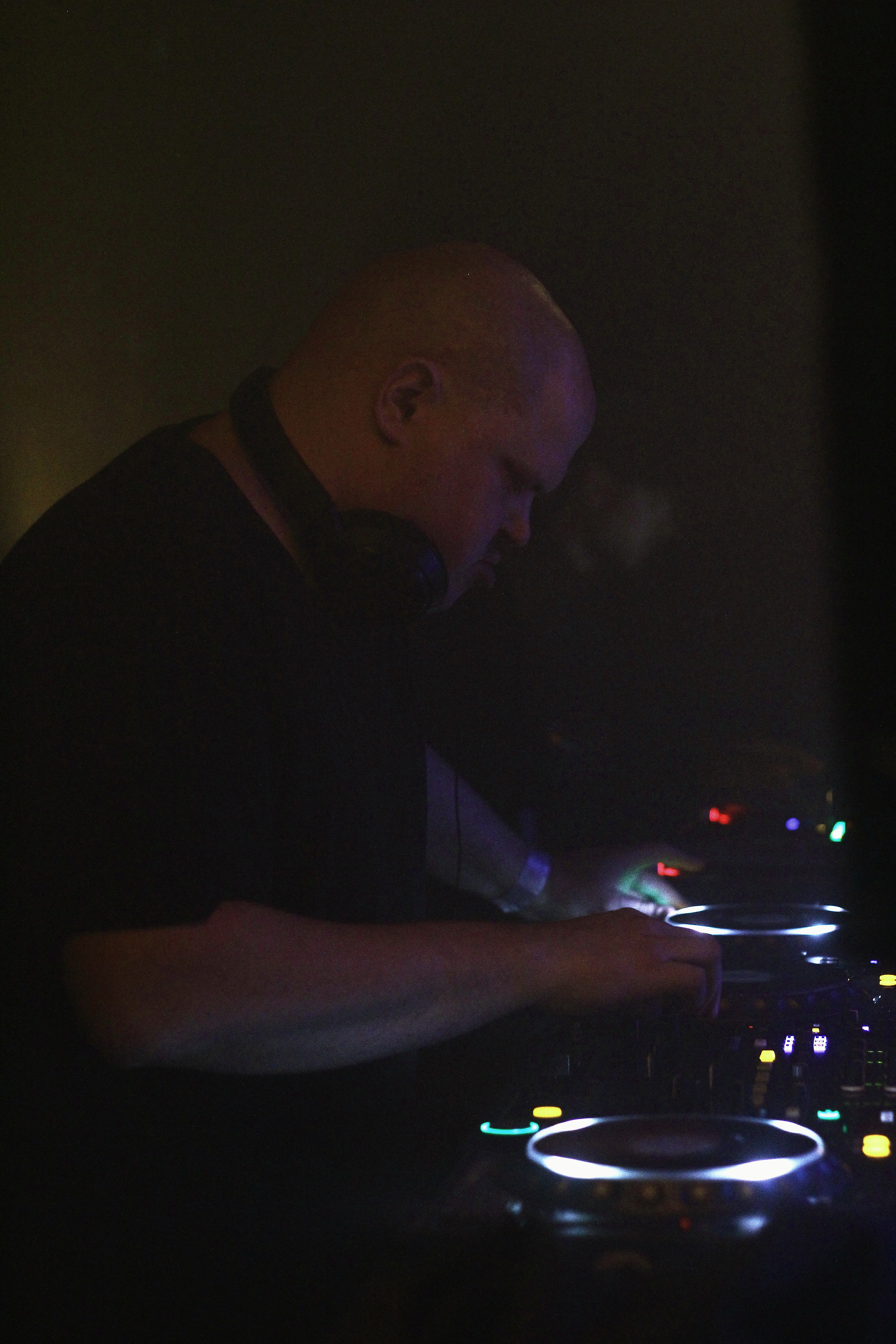 Teki Latex in 2014